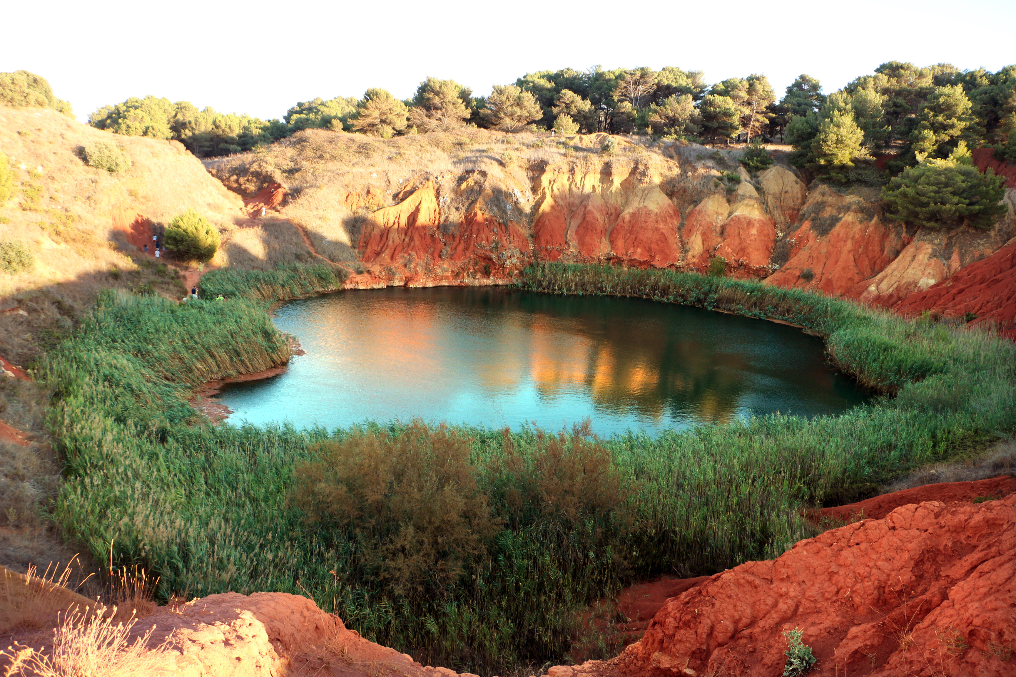 Otranto bauxite mine